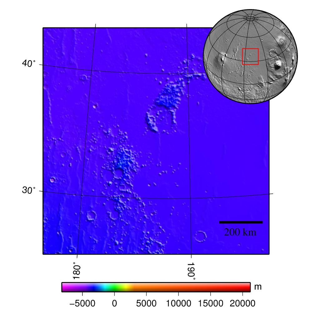 Erebus Montes (Mars) topography